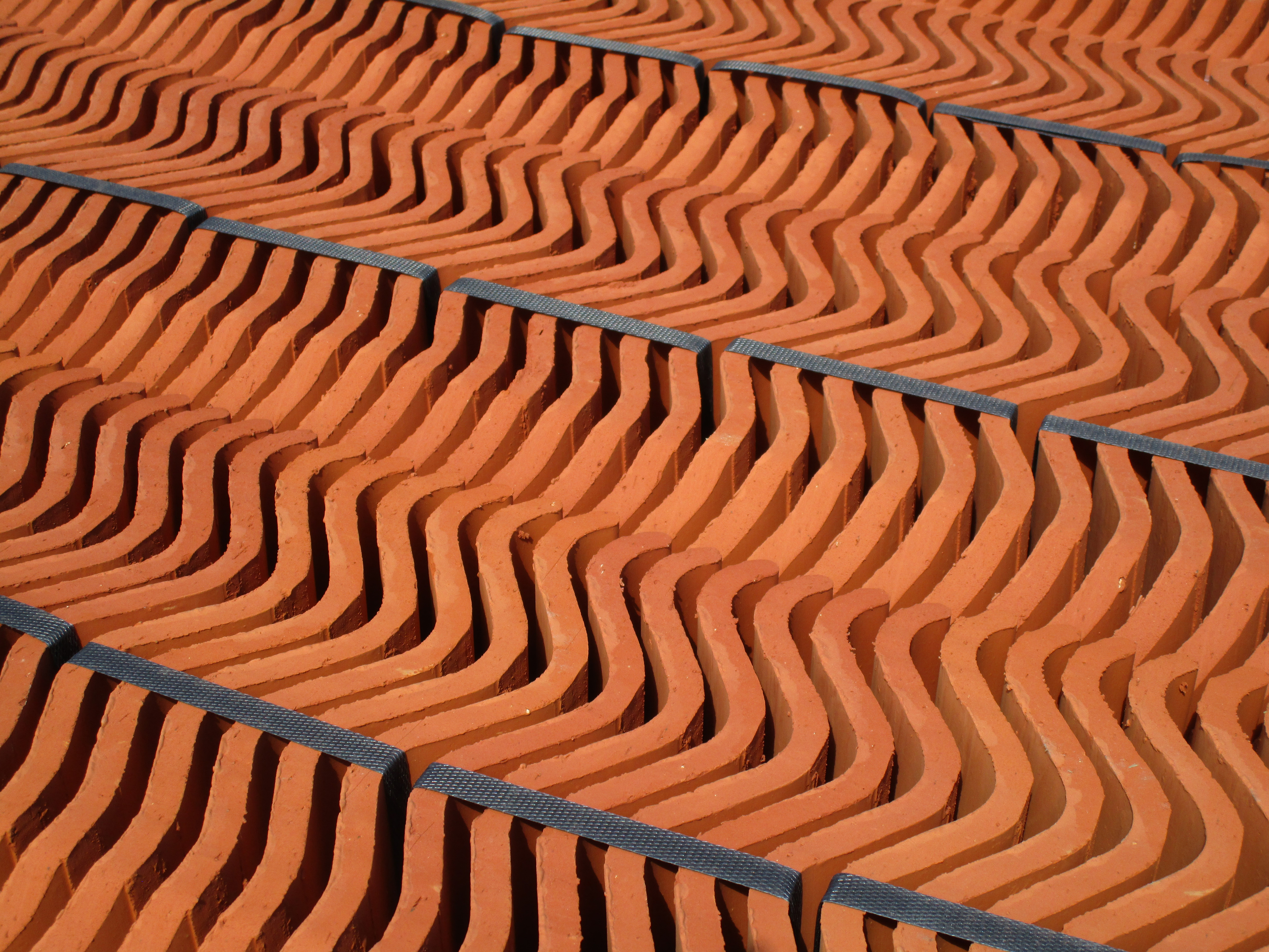 Red Vittinge Tegel clay roof tiles at a construction site by Smögen Church, Sweden.File is not altered except for size. Original file is 5152 x 3864 px.I saw the tiles while taking this picture.